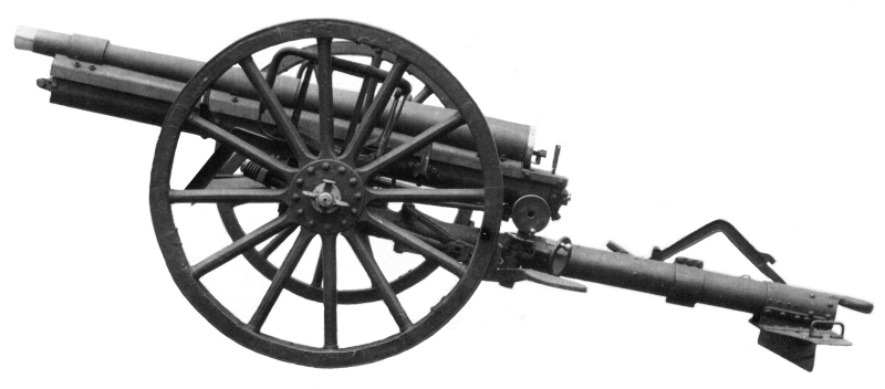 Photograph of British QF 15 pounder Mk I field gun. This is an early British adaptation from the original Ehrhard design, with the original steel wheels replaced by standard British wooden wheels. The axle-tree seats have not yet been removed and shield has not yet been added, as became the standard British practice.